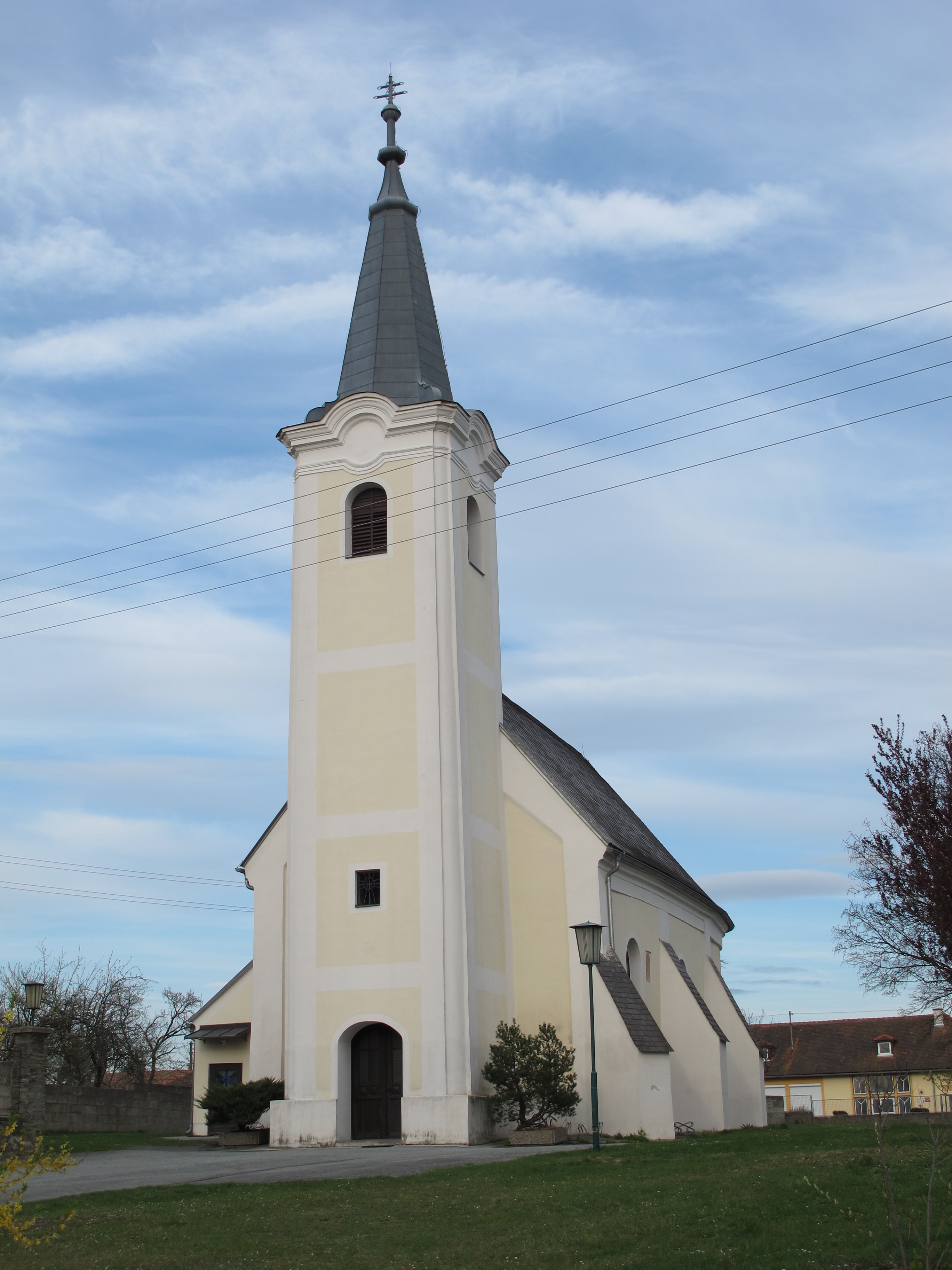 Pfarrkirche hl. Anna Schandorf